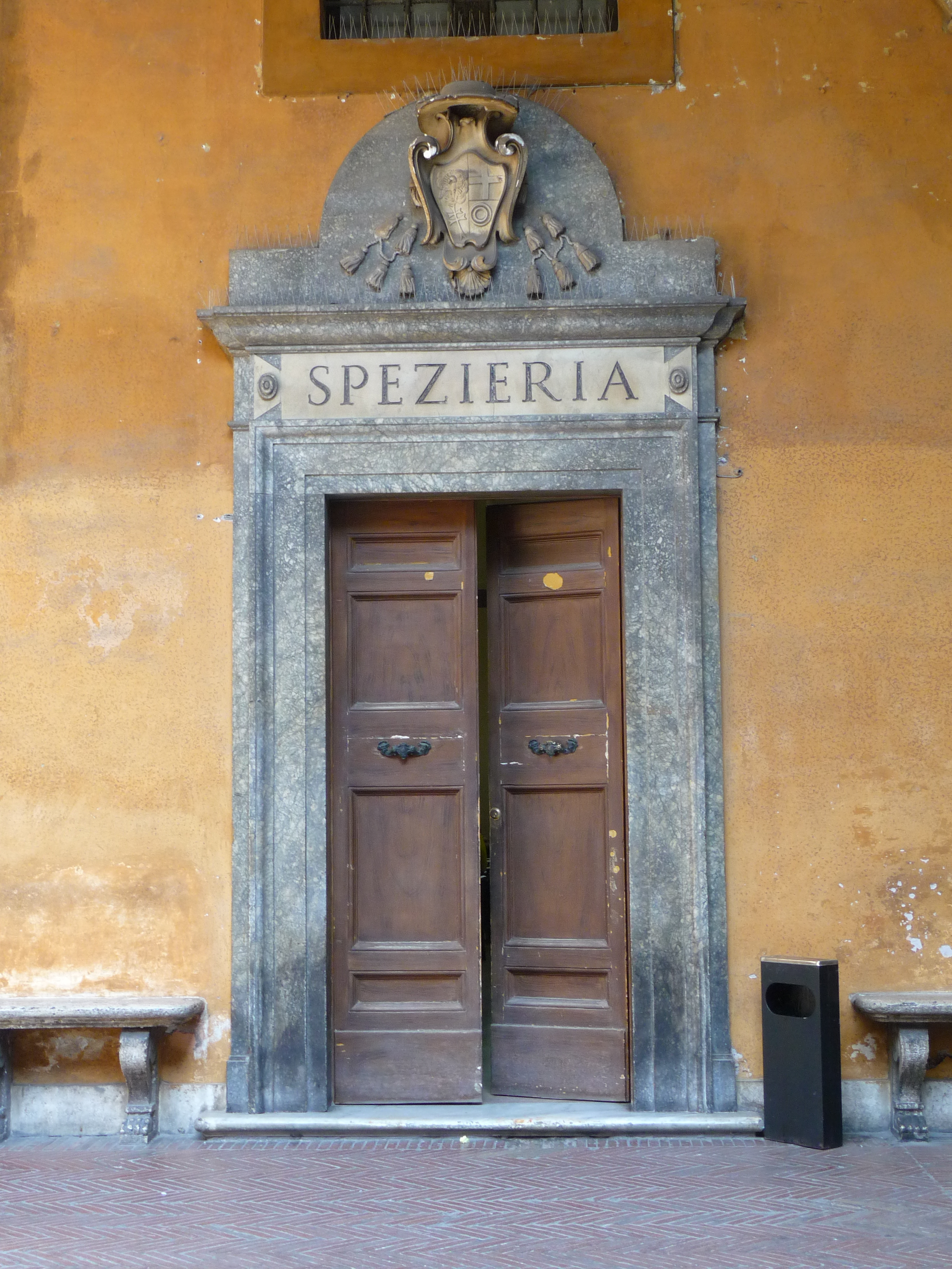 Santo Spirito in Sassia, entrance to the pharmacy